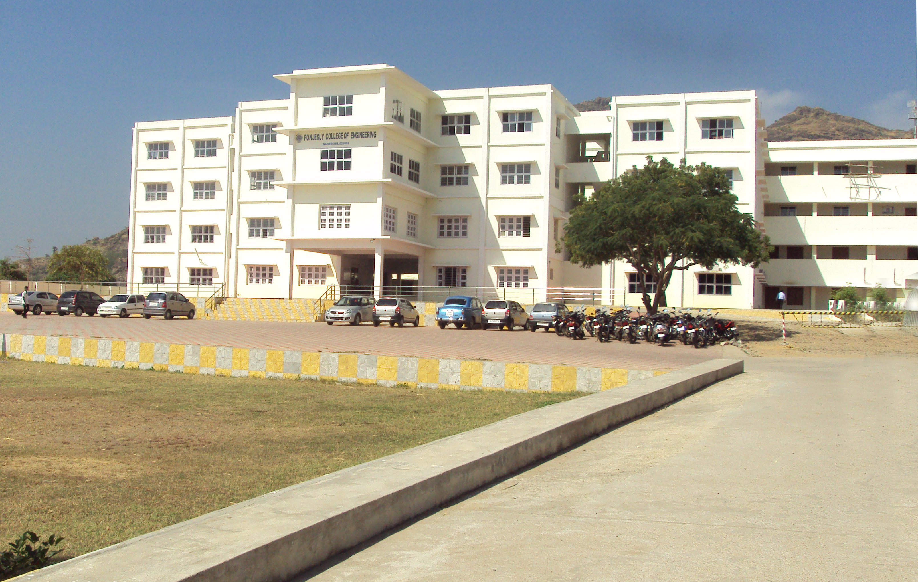 ponjesly college of engineering,kanyakumari college